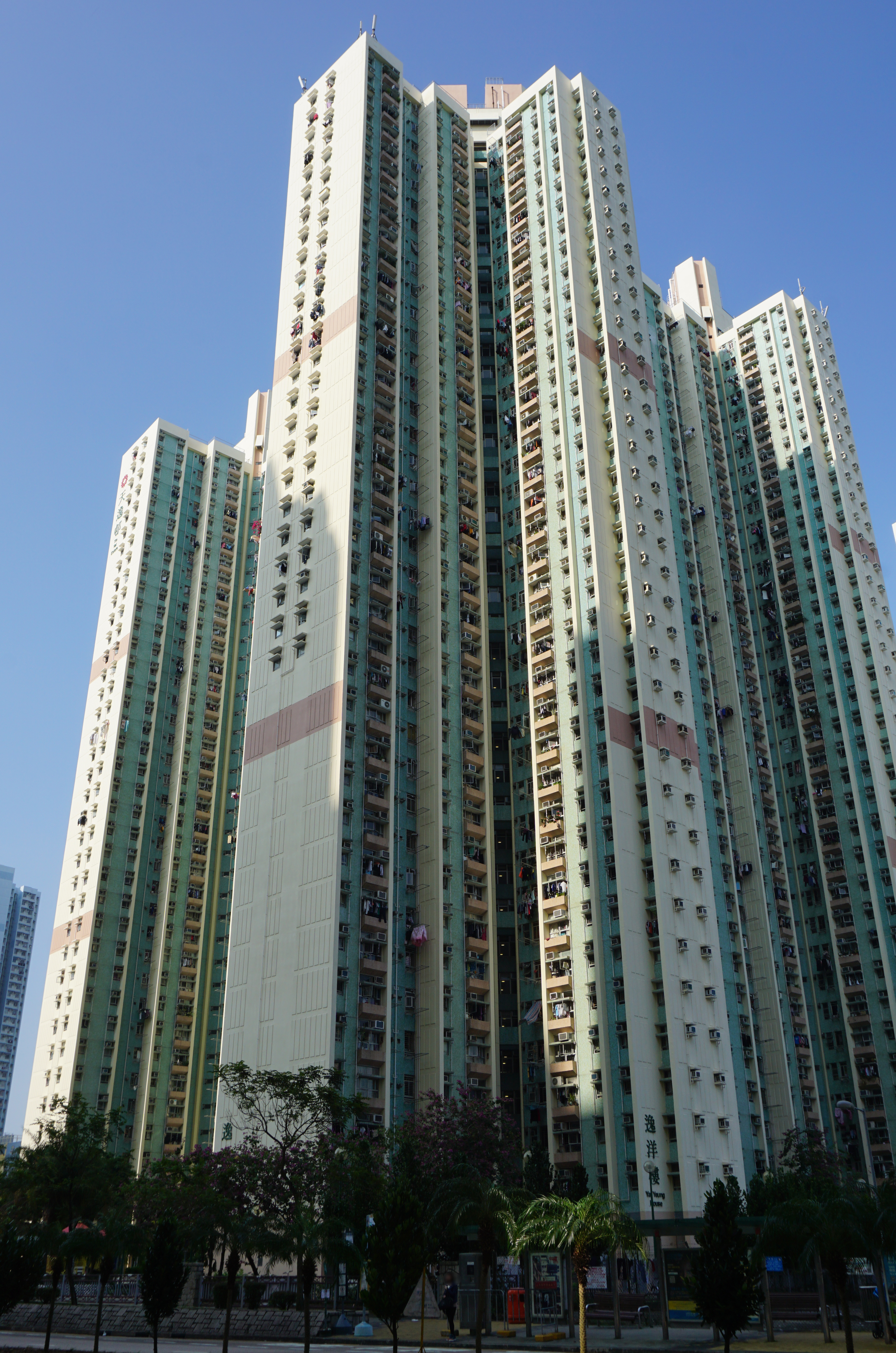 Yat Yeung House in Tin Shui Wai, Hong Kong.